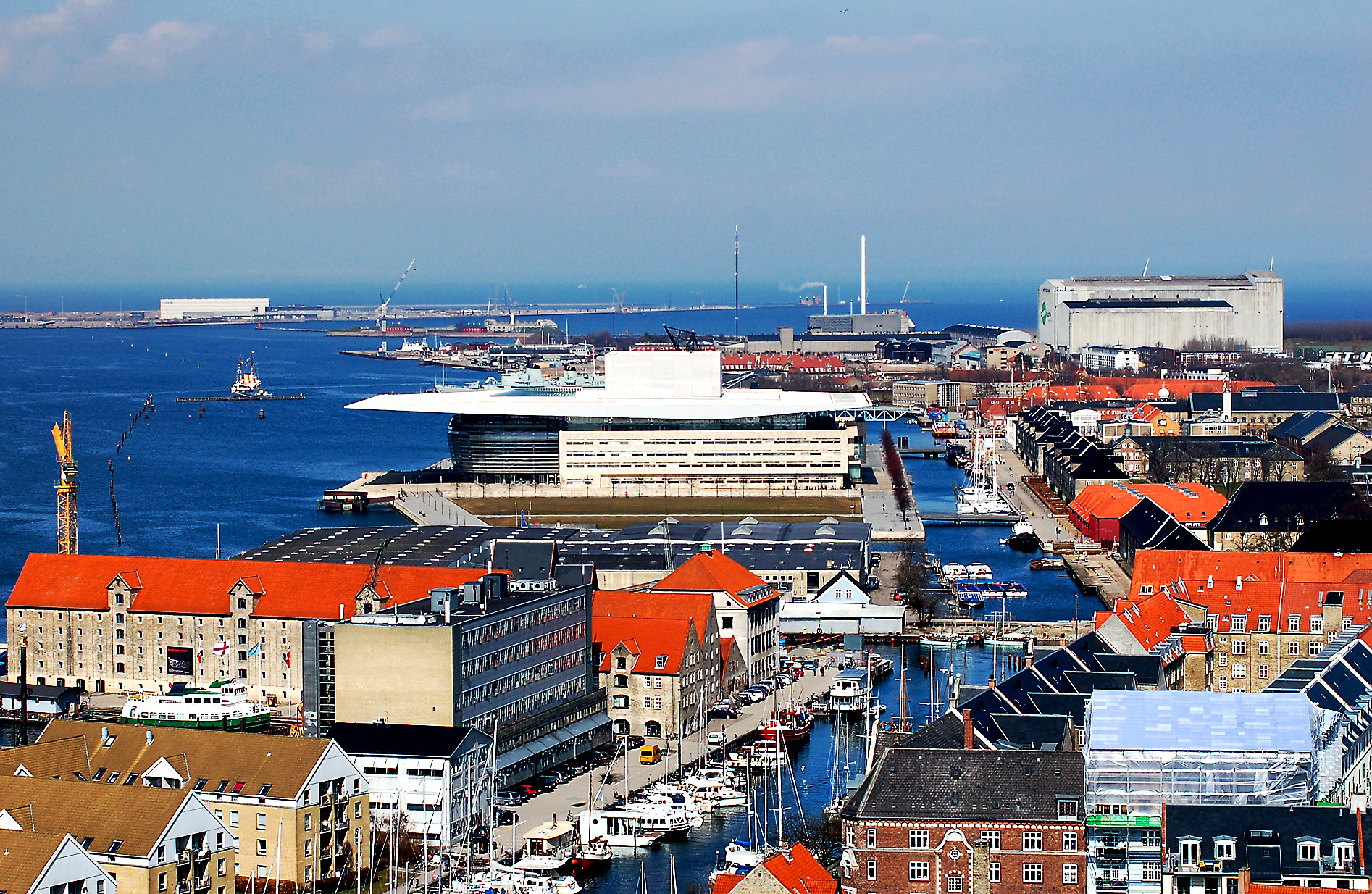 Opera Copenhagen